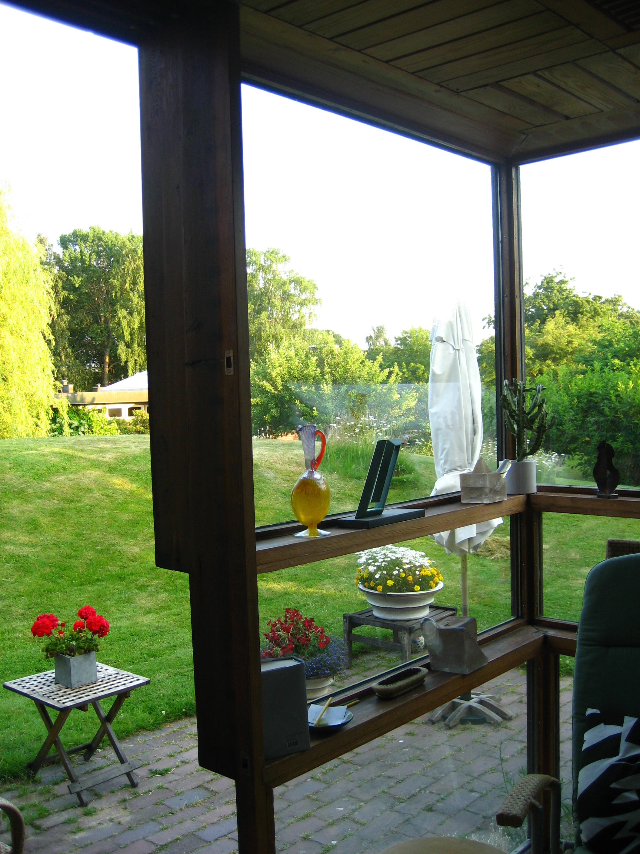 Villa Norrköping in Sweden. Detail of the corner windows. Architect: Sverre Fehn